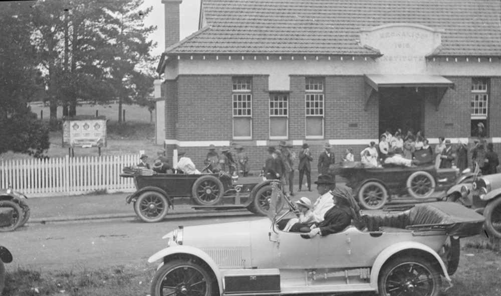 Frankston Mechanics' Institute with the Melbourne Volunteer Motor Corp.